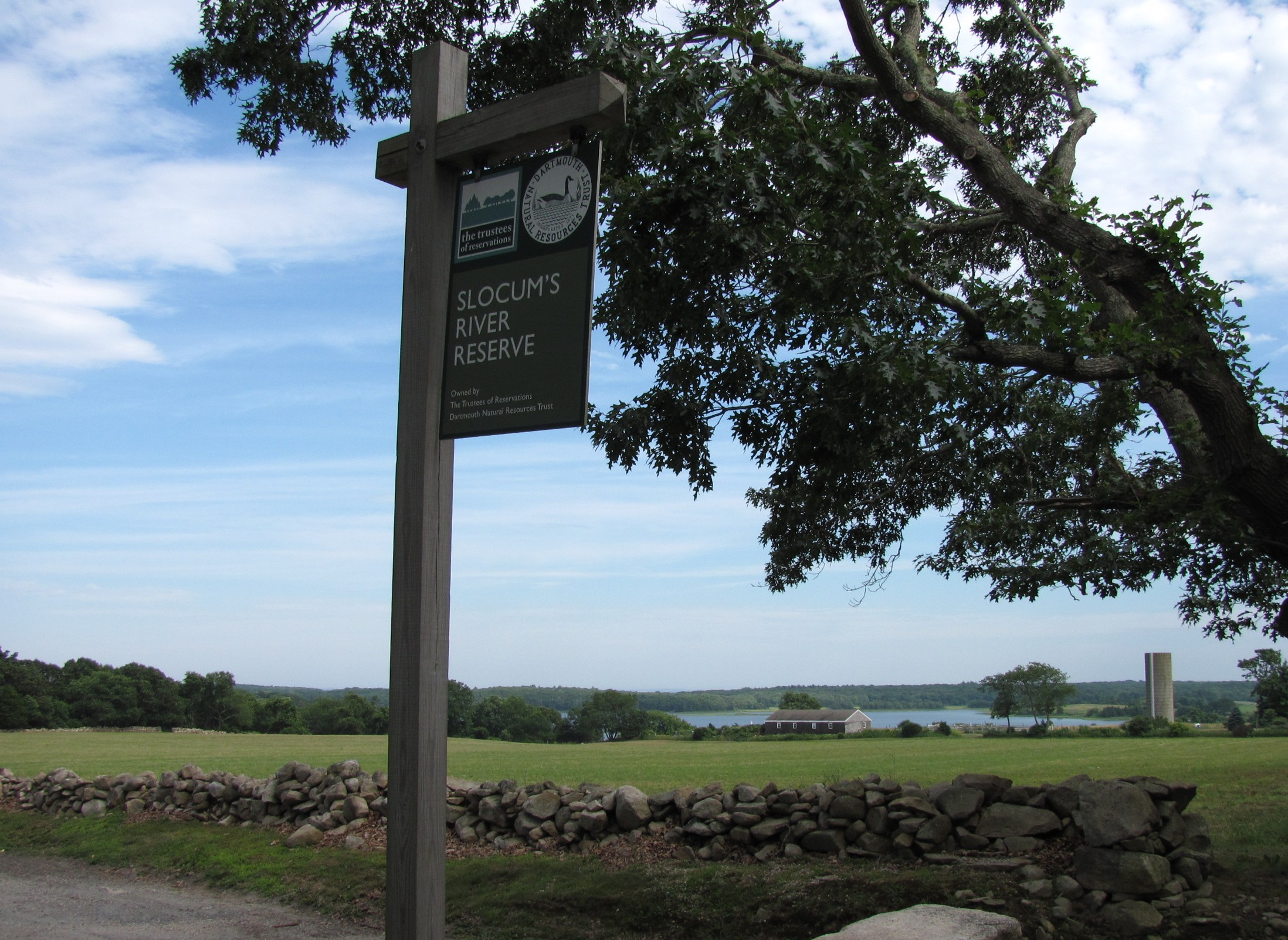 Slocum's River Reserve, Dartmouth Massachusetts